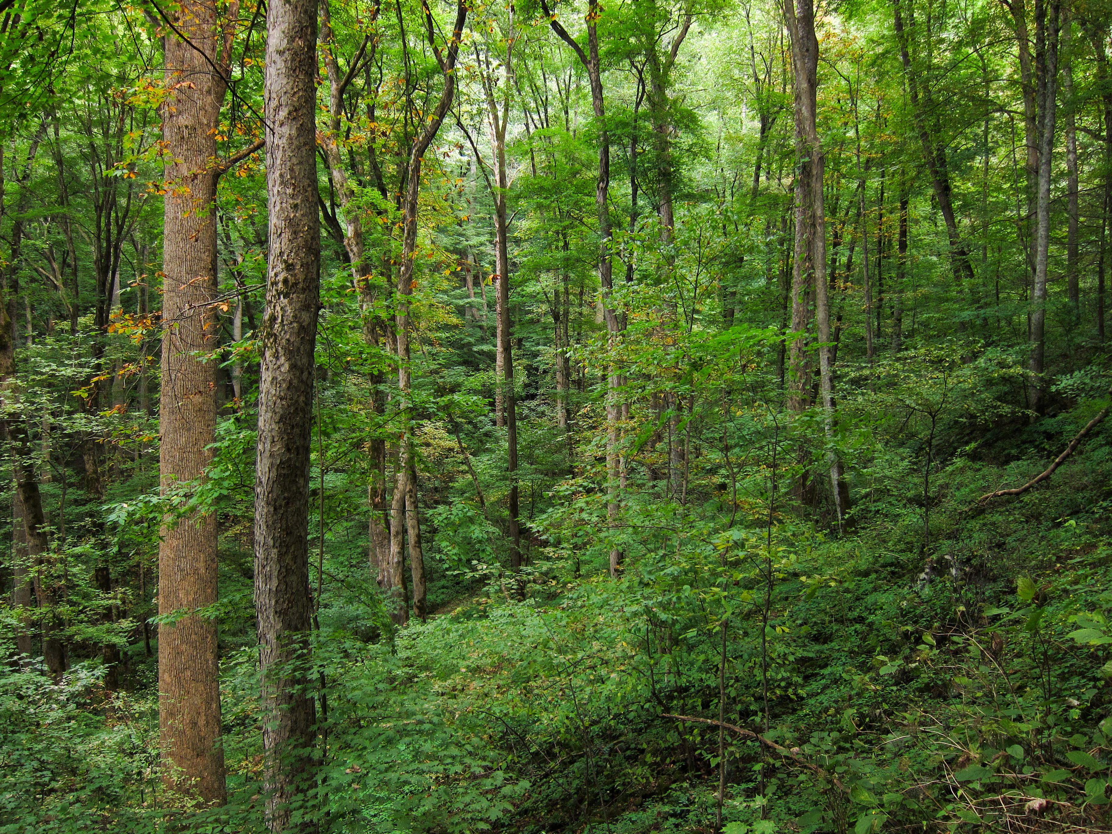 Appalachian cove forest on Baxter Creek Trail in Great Smoky Mountains National Park